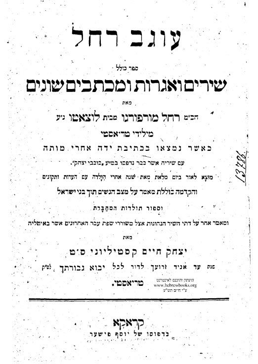 Image of the title page of a work mentioned in the article